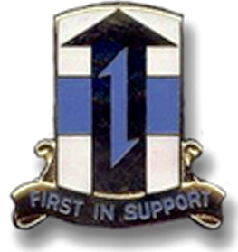 1st Support Brigade